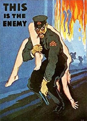 World War II-era United States propaganda poster. Contents depicts the Japanese as "the enemy". Text reads "THIS IS THE ENEMY".